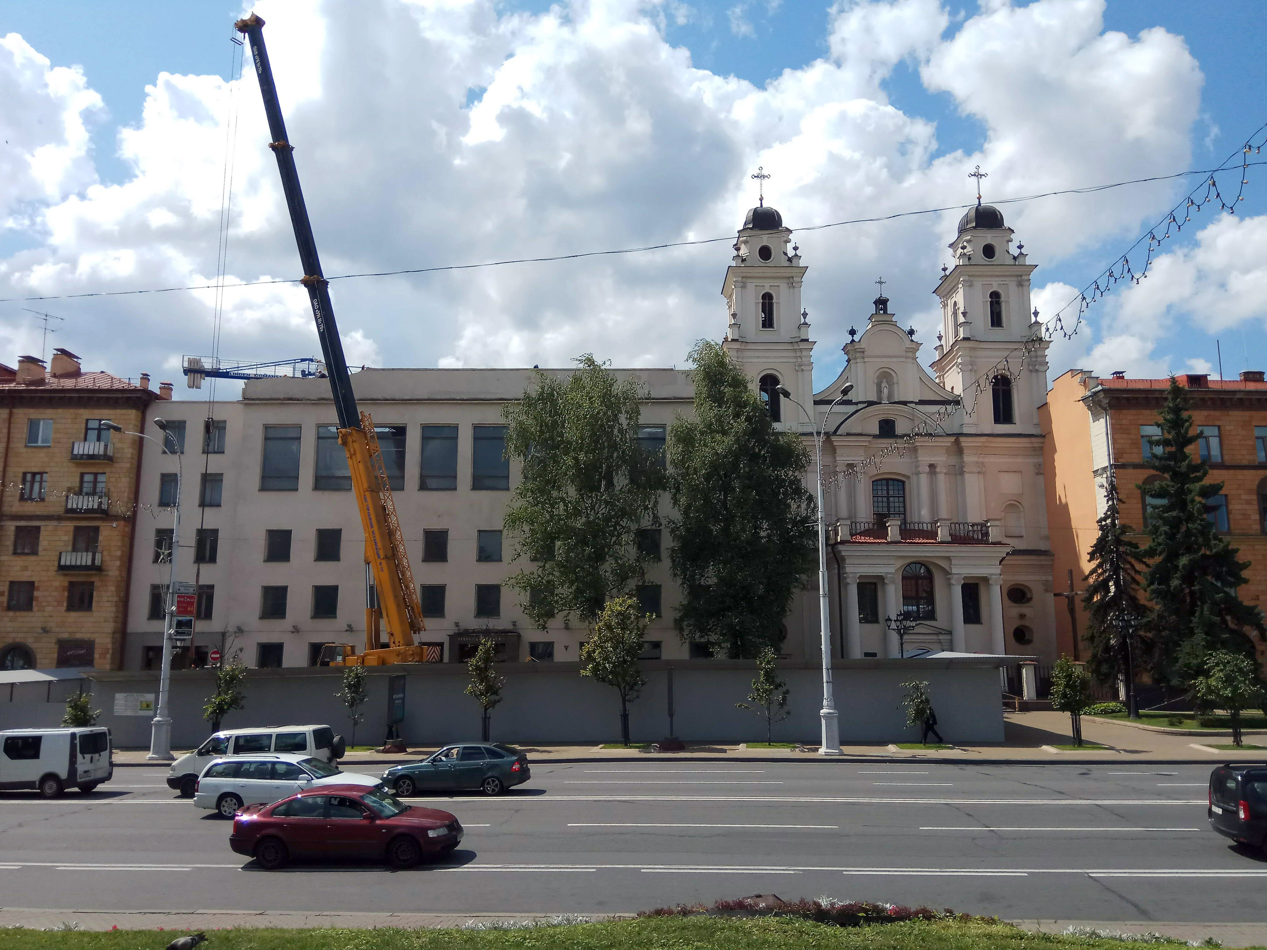 Miensk. Former Jesuit College 1699. Under reconstruction in 2019